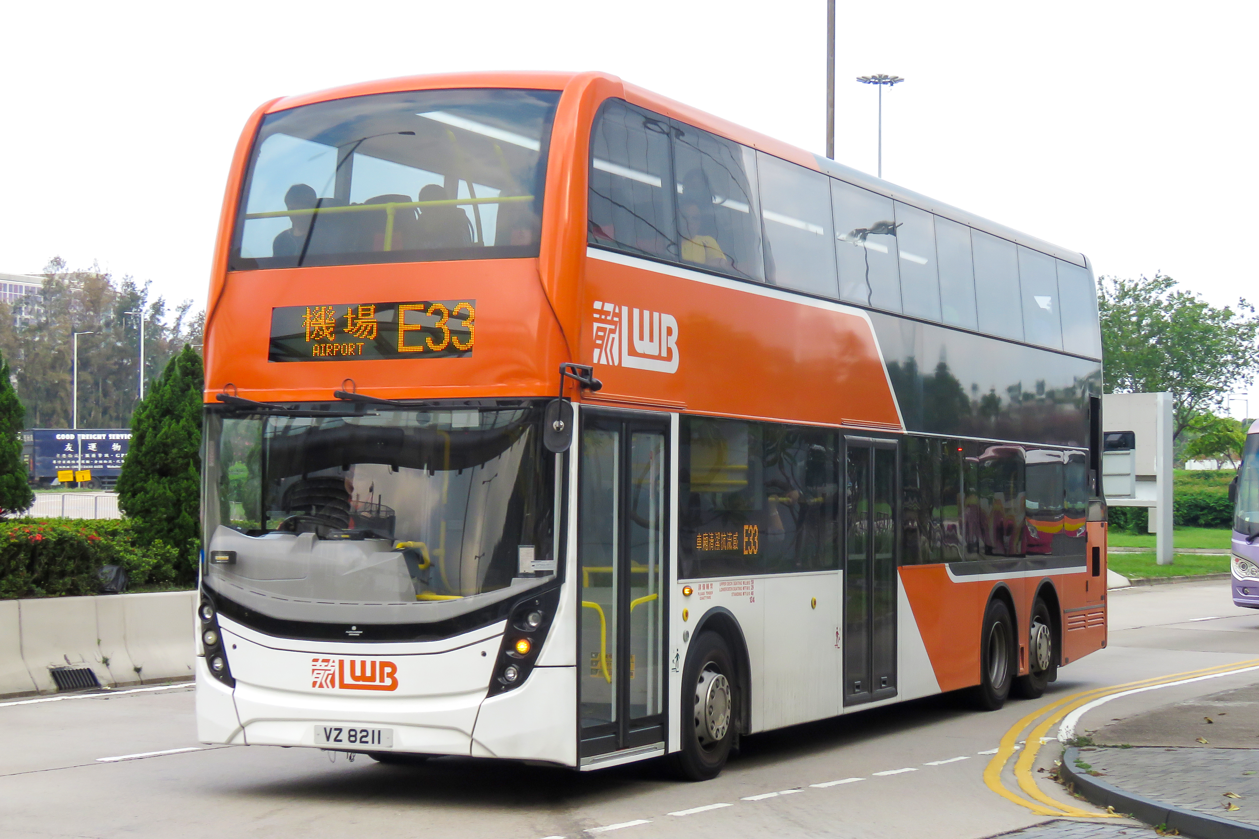 Another "escalator".